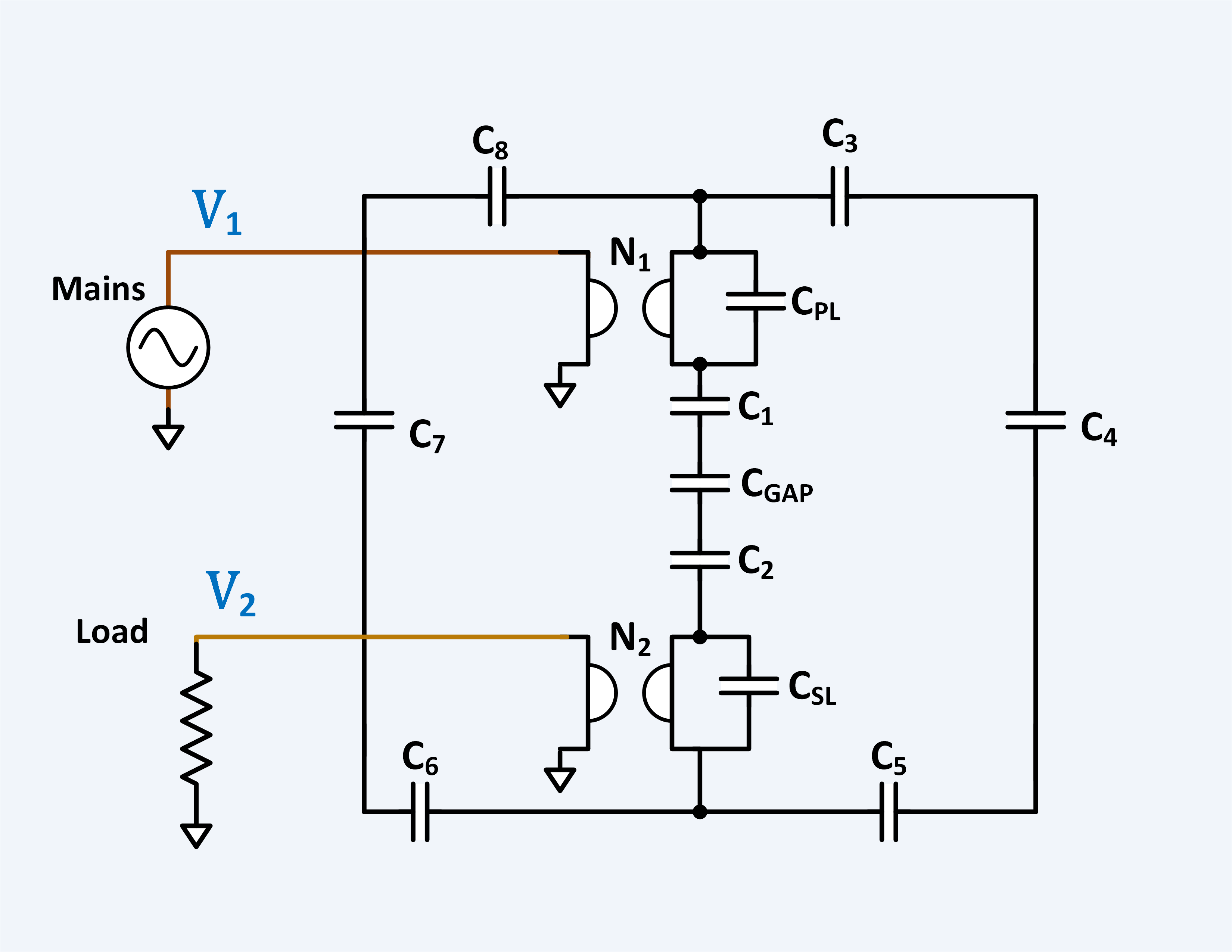 A schematic of the gyrator-capacitor model circuit analog of a single phase transformer showing magnetic elements, a magnetic gap and leakage flux.